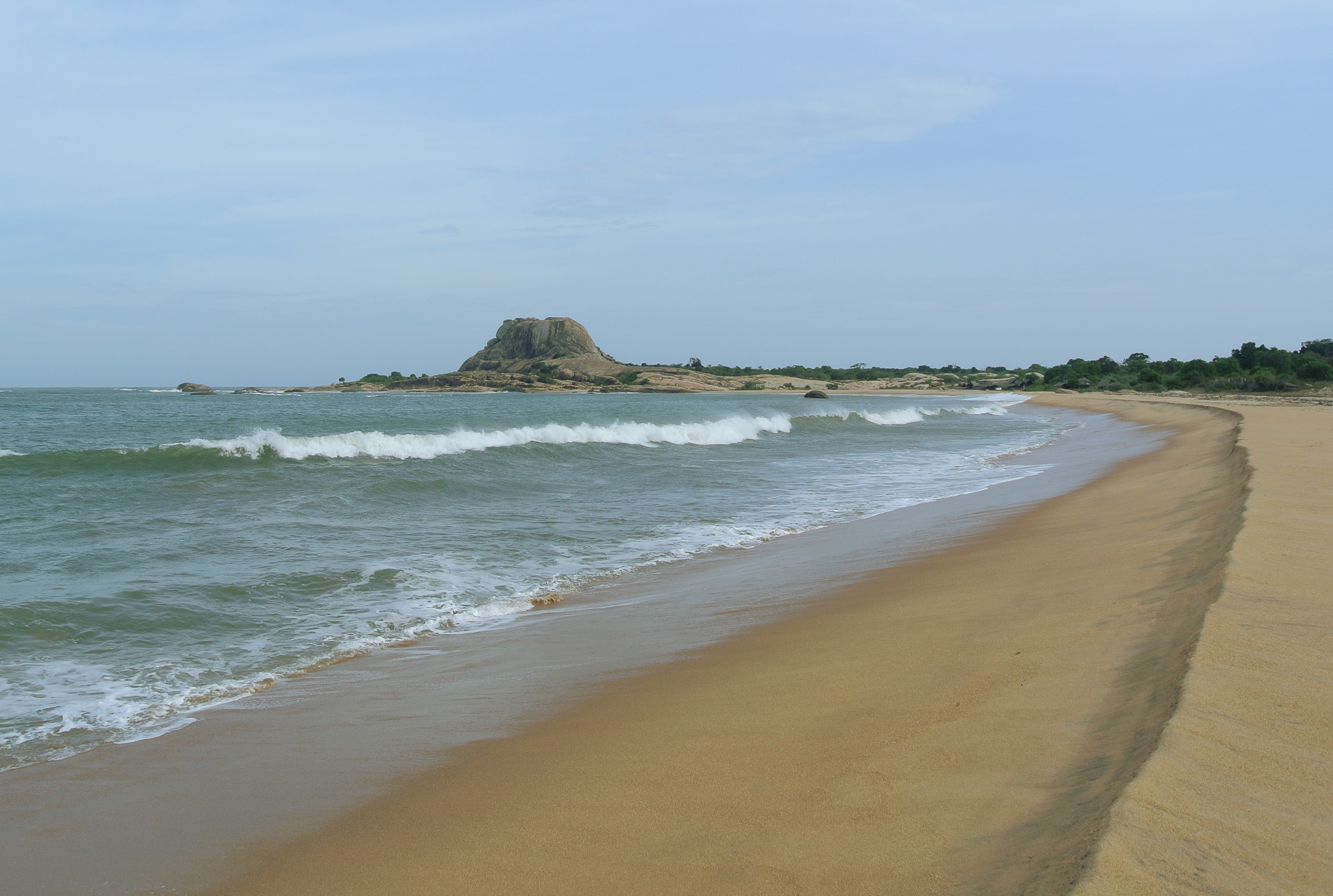 Patanangala Rock (also known as Elephant Rock) in Yala National Park, Sri Lanka.